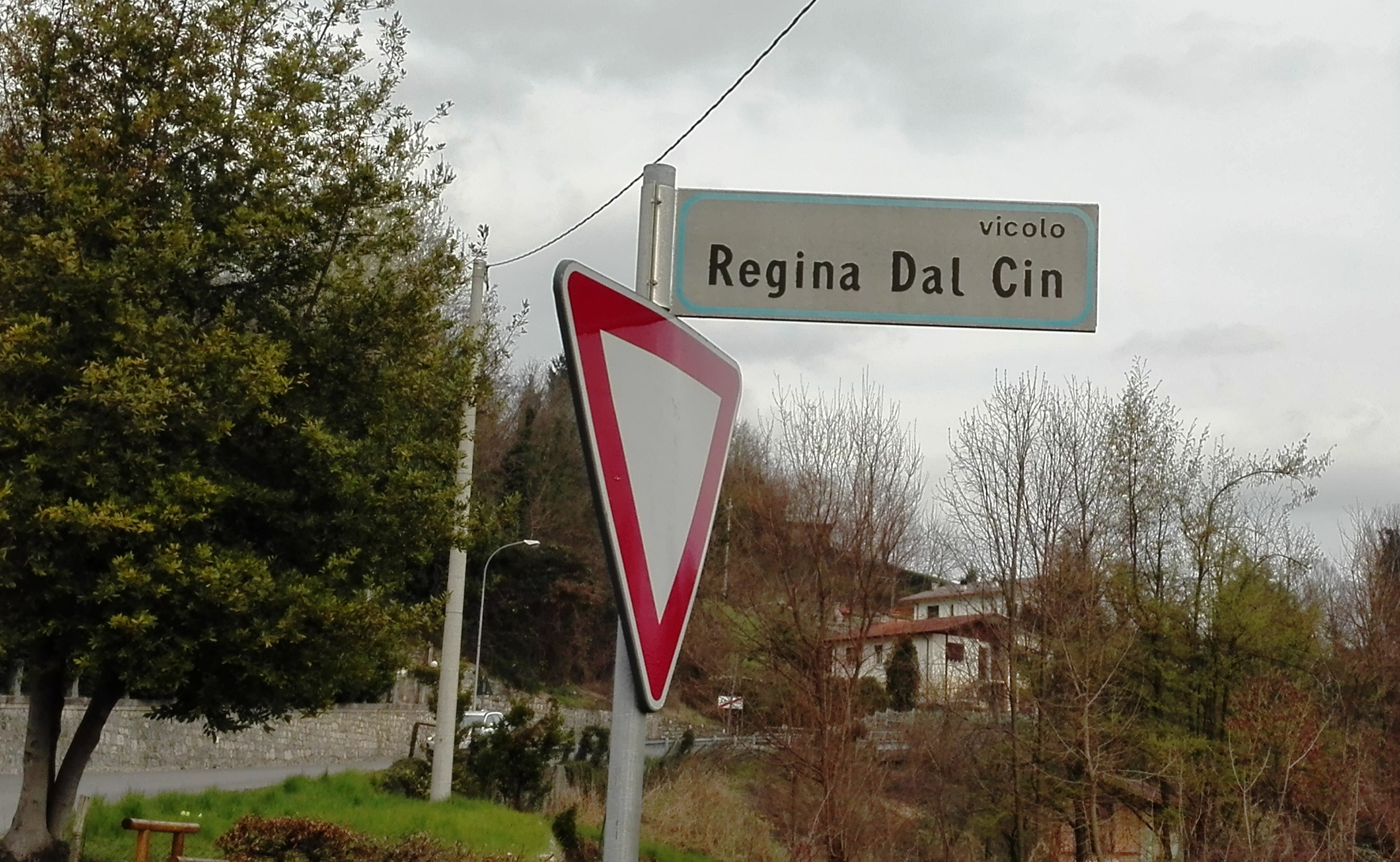 Sign toponomastico Regina Dal Cin, comune di Cappella Maggiore (TV)